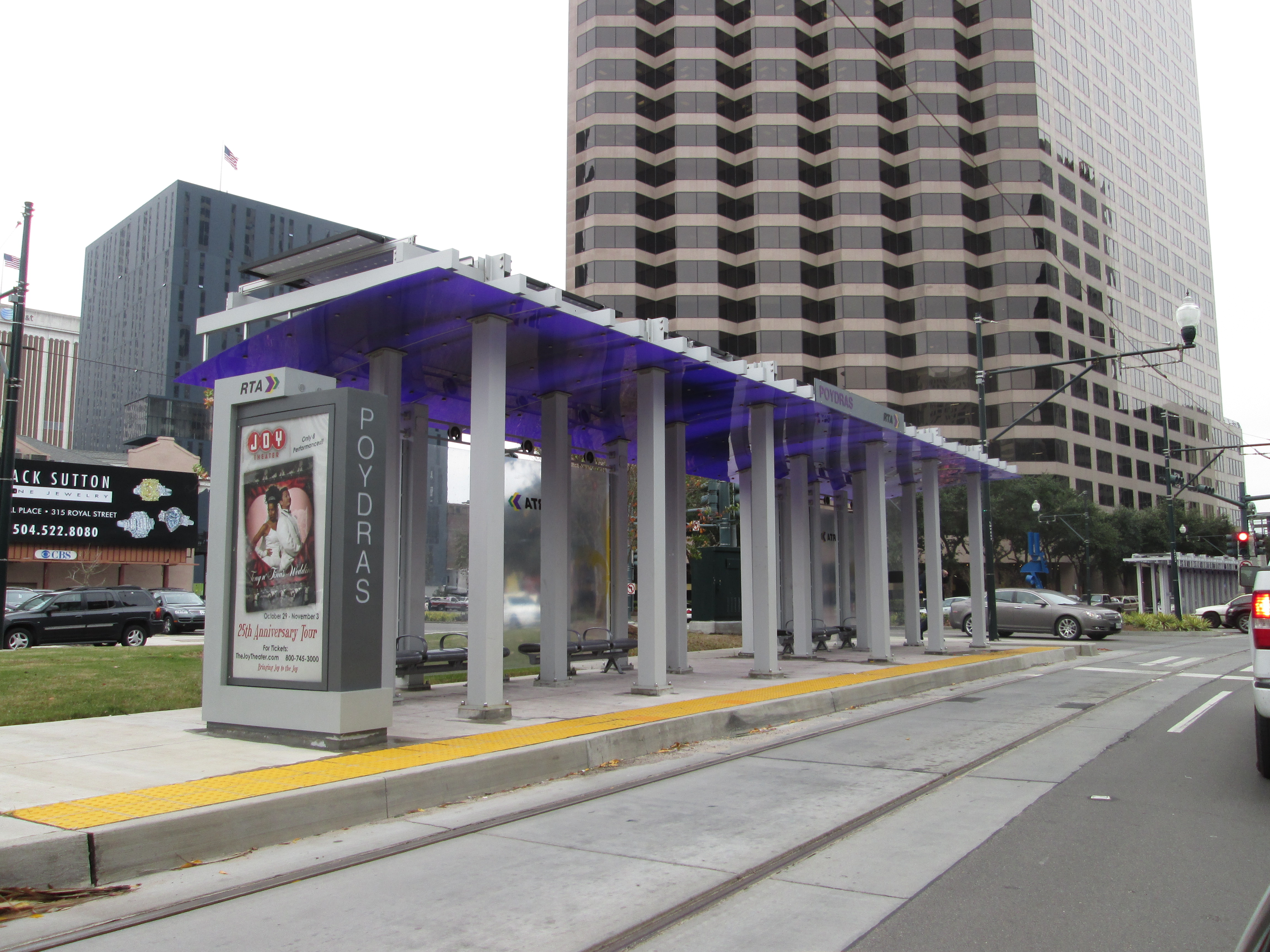 Streetcar stop on Loyola Avenue at Poydras Street, New Orleans.